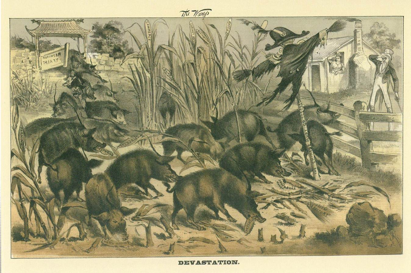 Chinese immigrants depicted as pigs bursting through a gate labeled "Burlingame Treaty ravaging a field of crops while Uncle Sam and Columbia watch. A tattered scarecrow represents labor leader Denis Kearney.